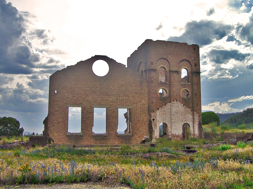 Blast Furnace Park - Lithgow, NSW, Australia I would appreciate notification if you would like to use the photo, thanks.